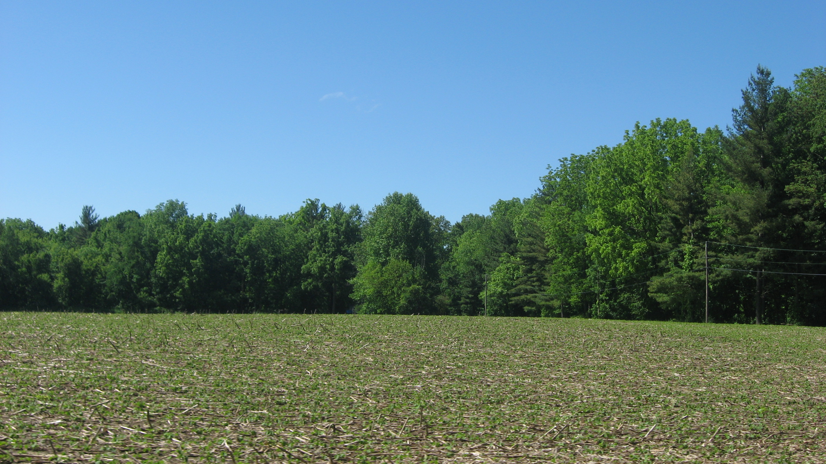 Looking over the fields toward the Ames Family Homestead, located at 5336 W150N northwest of LaPorte in Center Township, LaPorte County, Indiana, United States. The farmstead is listed on the National Register of Historic Places.